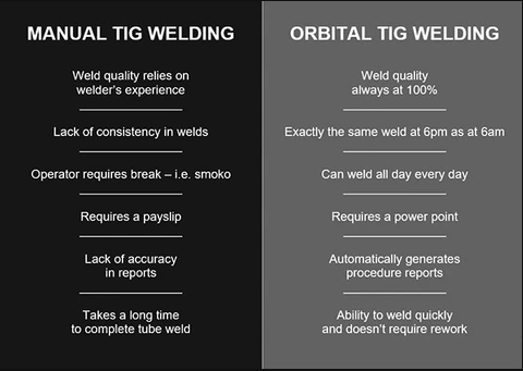 Orbital welding vs manual welding